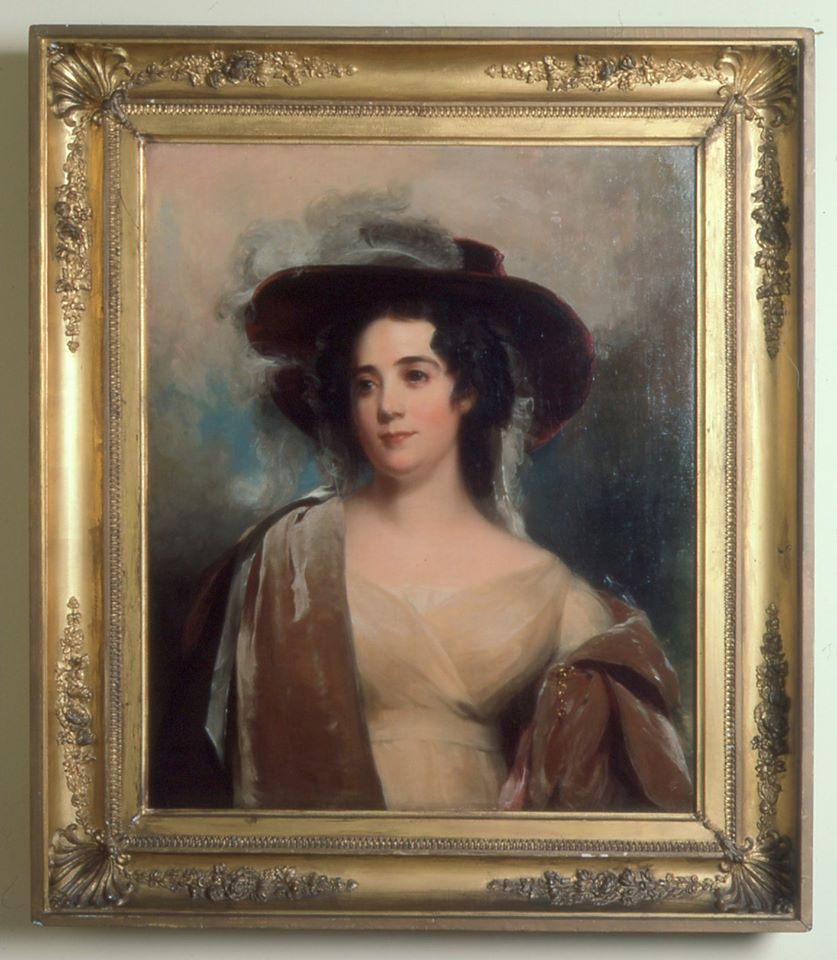 Sully no. 164